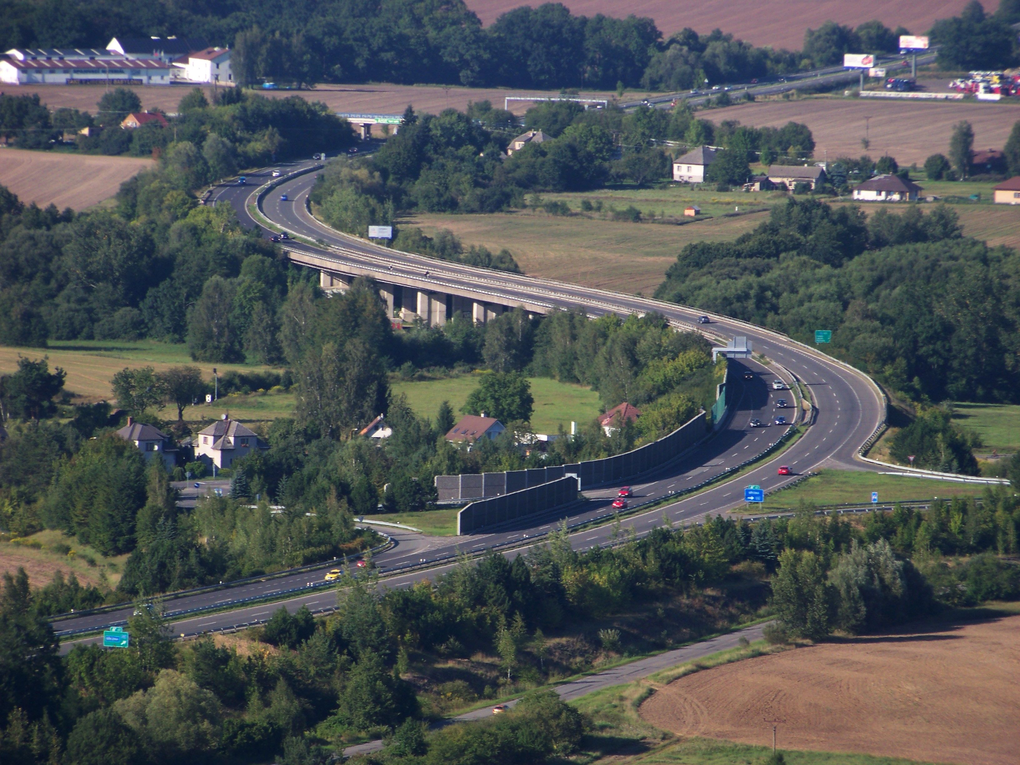 Březina, Mladá Boleslav District, Central Bohemian Region, the Czech Republic. A view from | to the road R10.